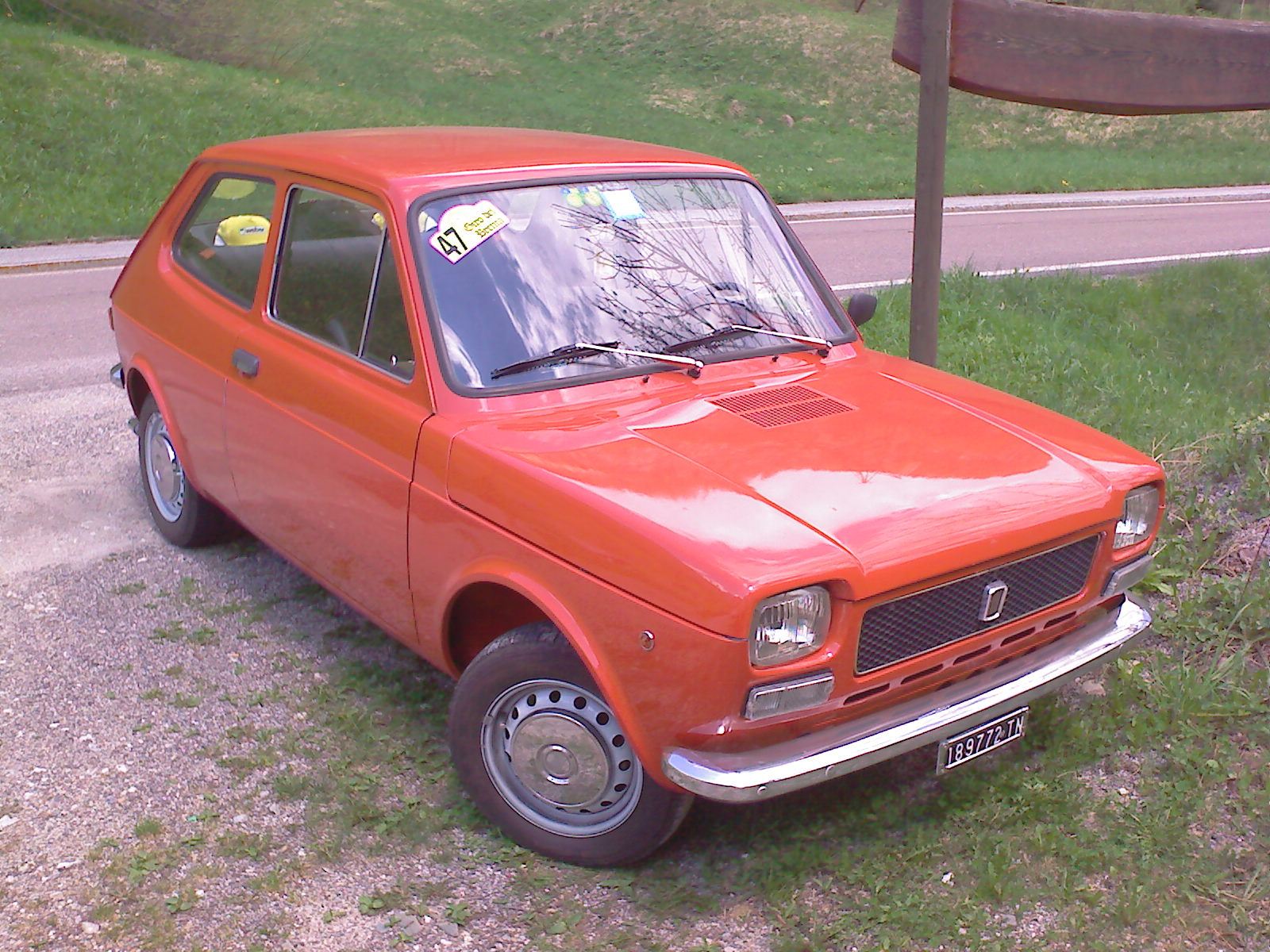 Fiat 127 mk1. Picture taken at Daone (Trento, Italy), on 30 april 2009